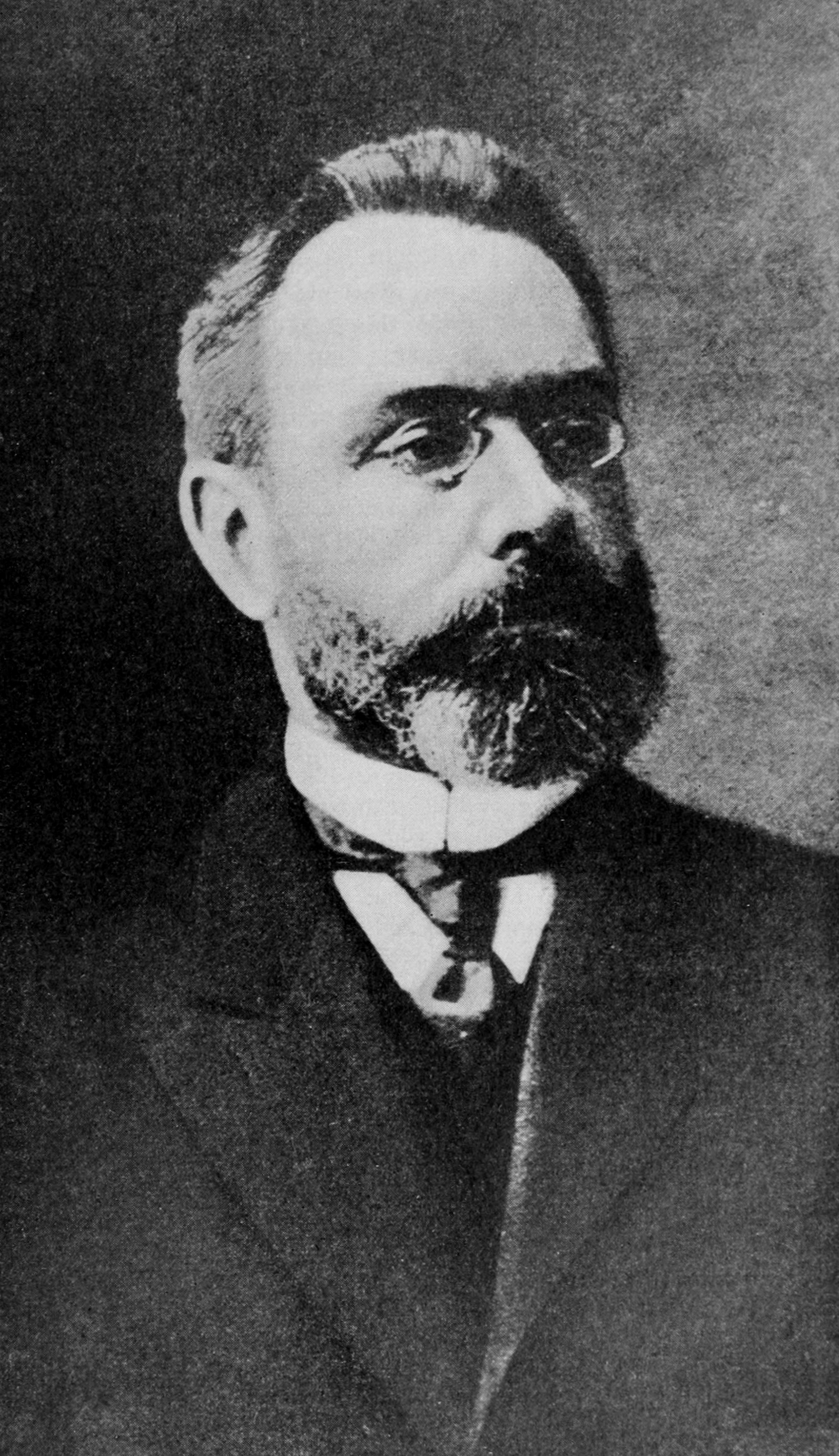 Alexander Ivanovich Guchkov